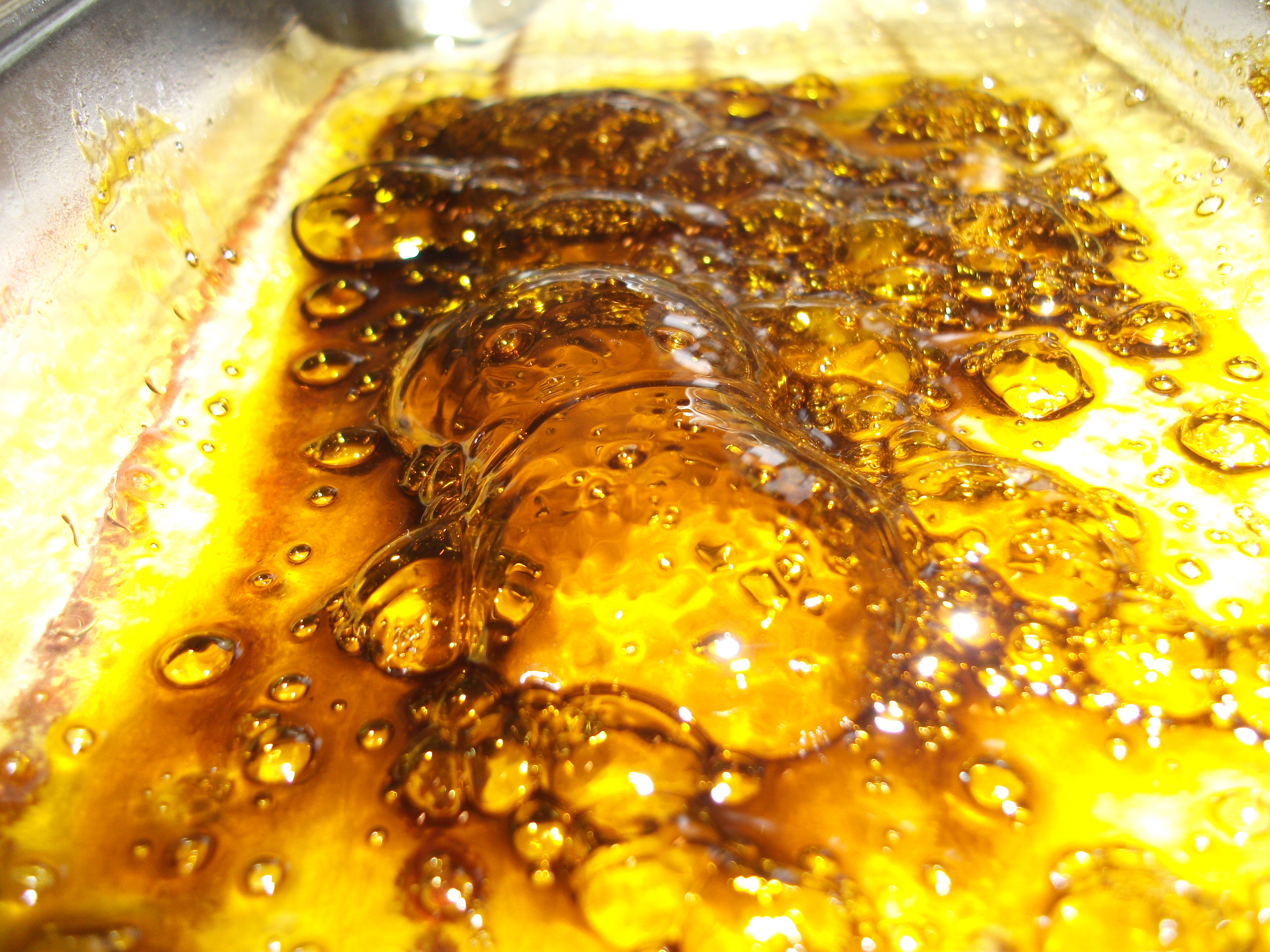 Some huge butane bubbles evaporating before whipping and vacuum purging